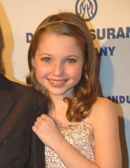 Sammi Hanratty at the International Press Academy’s 12th Annual Satellite Awards.